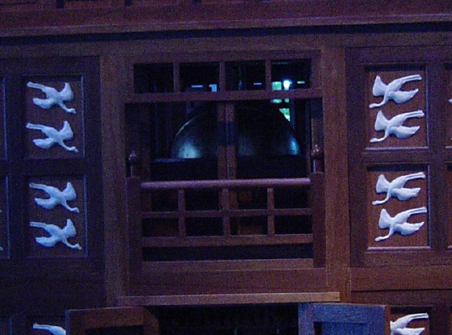 Looking through the third floor windows to see the celestial globe in Su Song's Water Clock. This picture is from a scaled model of Su Song's water-powered clock tower. The original clock tower was 35 feet tall. It was a 3 story tower with an armillary sphere on the roof, and a celestial globe on the third floor. This picture was taken in July 2004 from an exhibition at Chabot Space & Science Center in Oakland, California. The quality of the picture is not ideal because flash photography was not allowed.